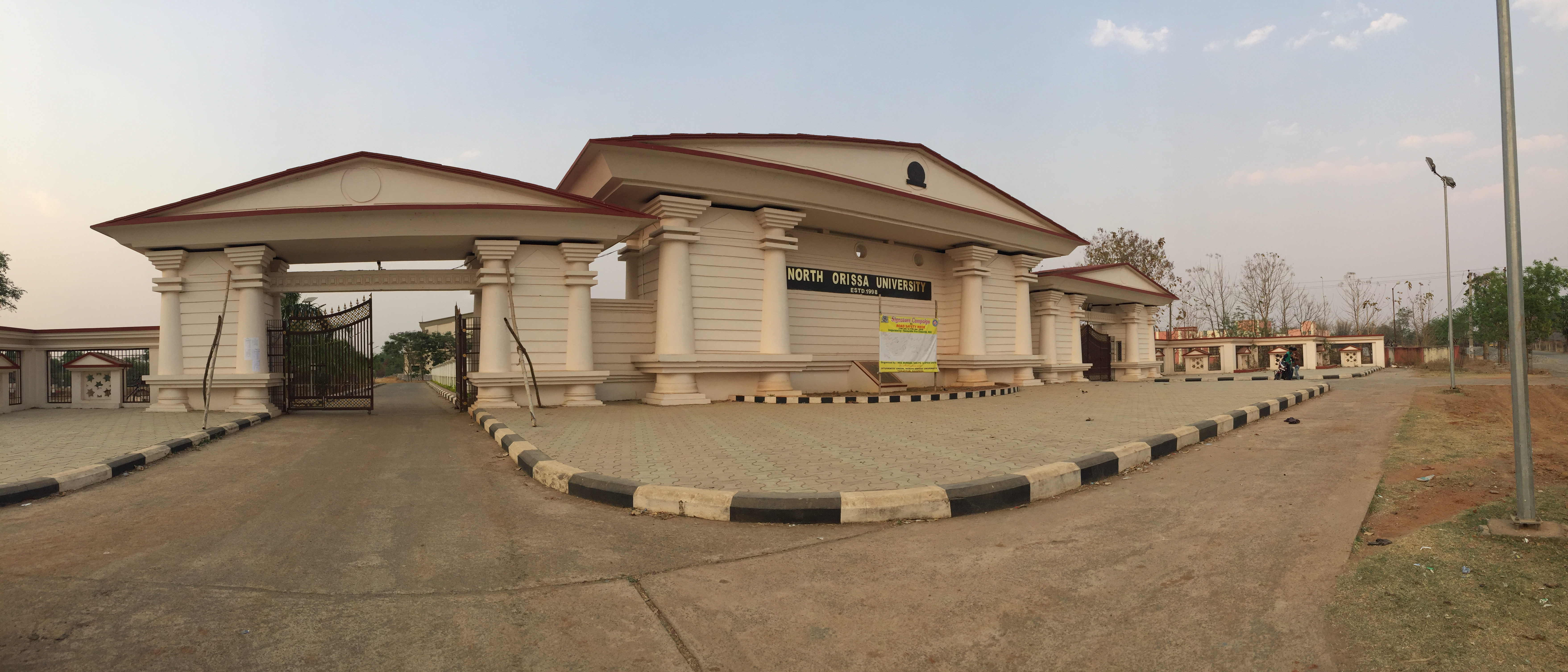 Main entrance of North Odisha University, Takhatpur, Baripada, Mayurbhanj, Odisha, India.